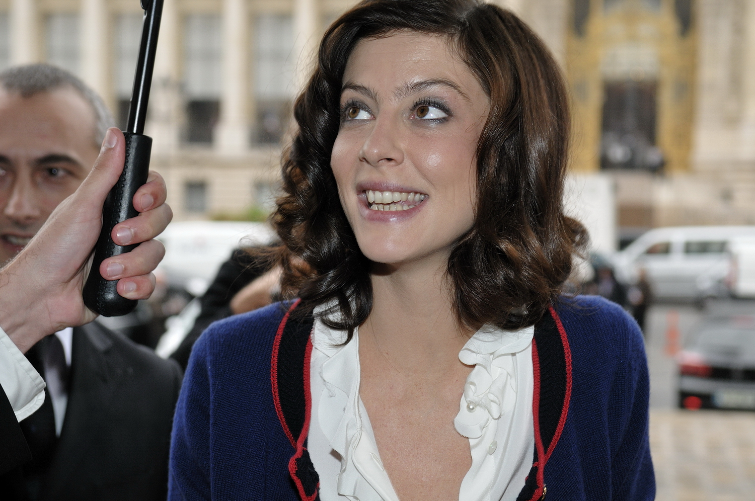 Anna Mouglalis